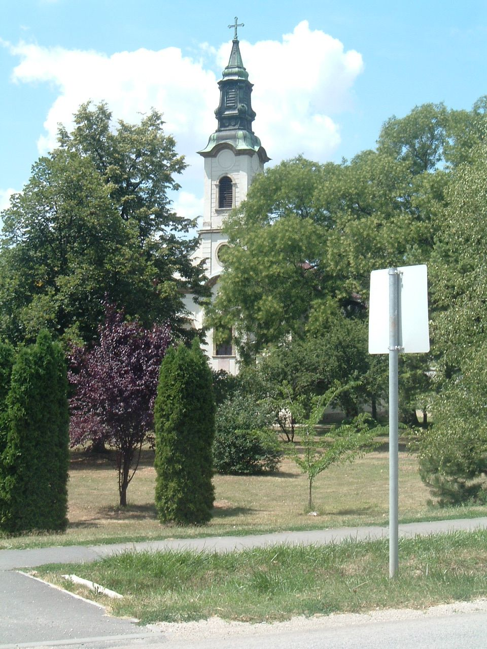 Saint Anne Roman Catholic Church in Martonvásár